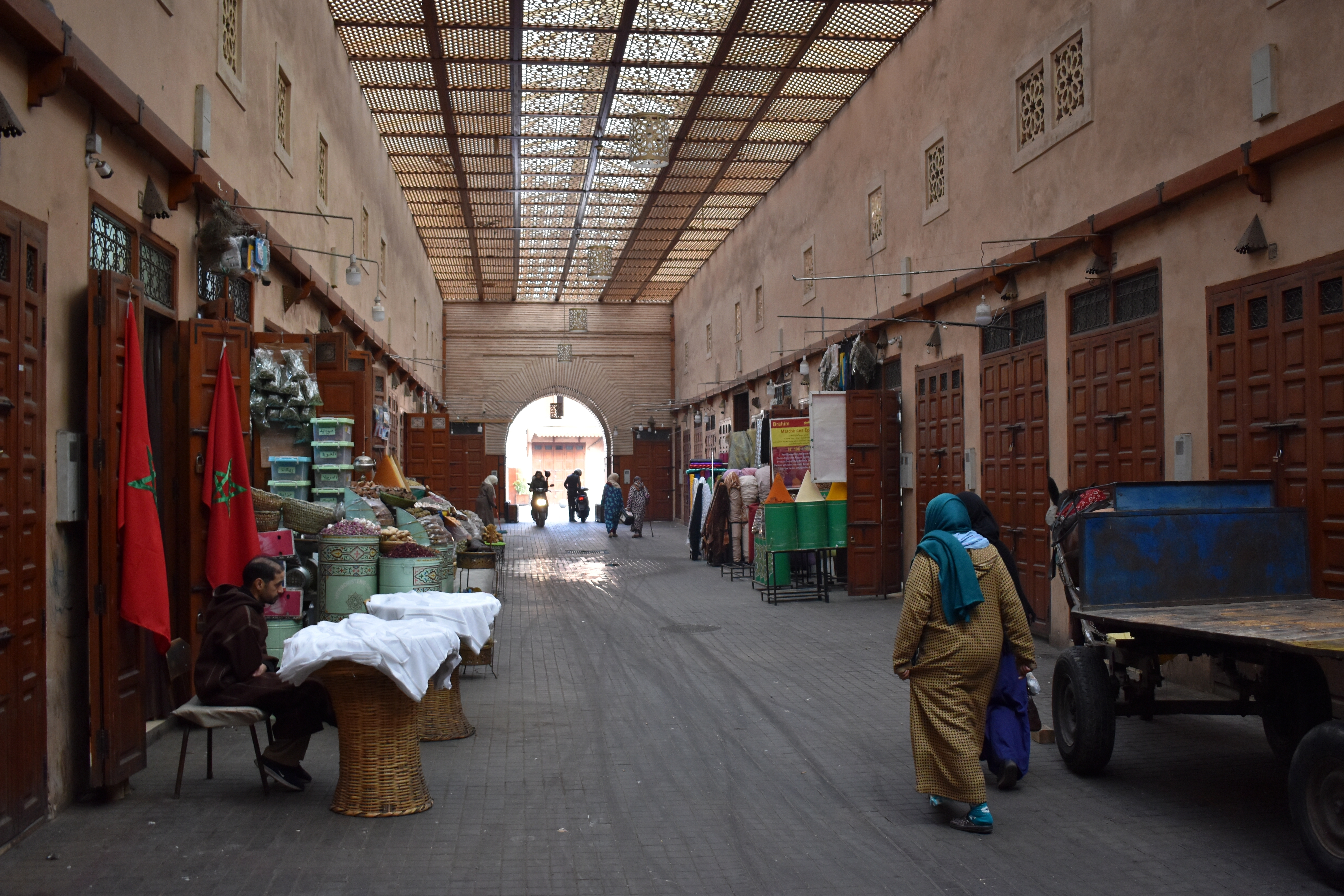 Marrakech, Medina, Mellah